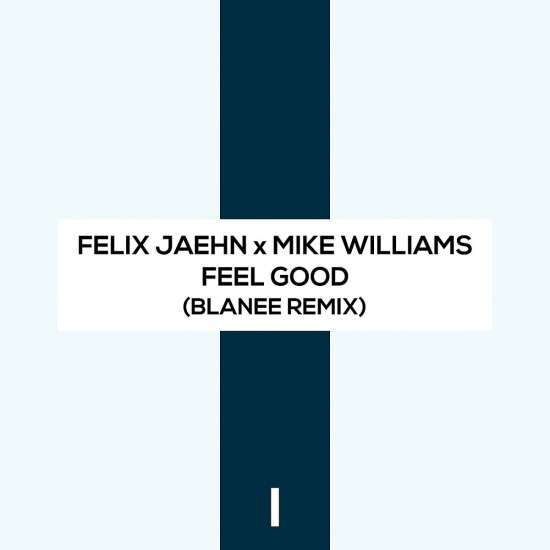 „Feel Good (Banee Remix)“ Single-Cover by Felix Jaehn x Mike Williams.